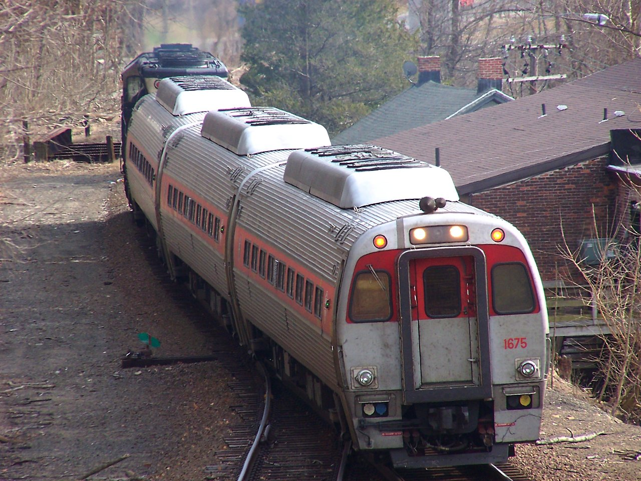 A Waterbury Branch train just south of Seymour station in March 2006. The three coaches are Constitution Liners - depowered SPV-2000 railcars.